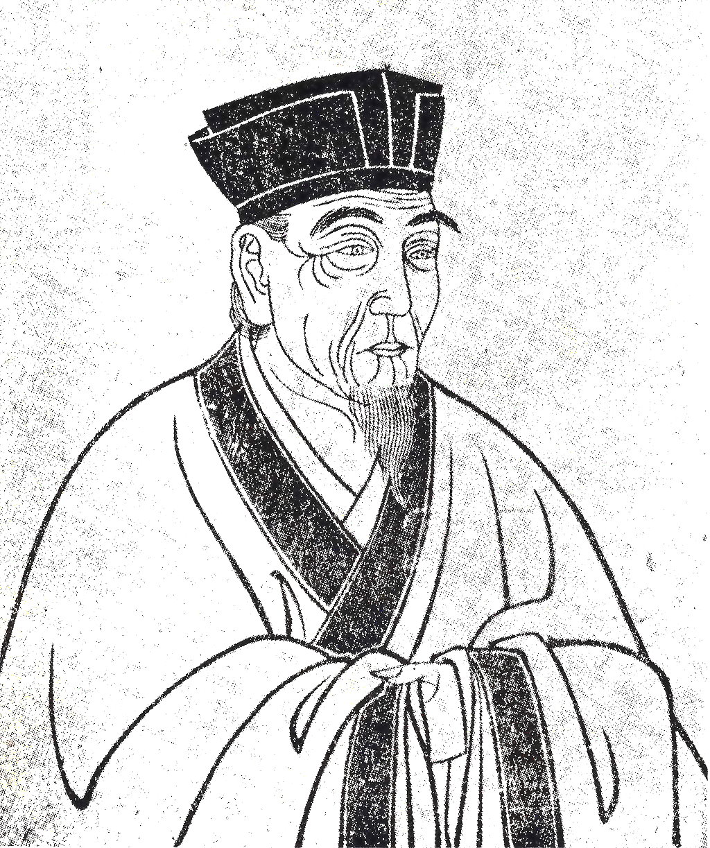 Kinoshita Junan（木下順庵） was the Confucian scholar of the Japanese in the early stages of the Edo period.